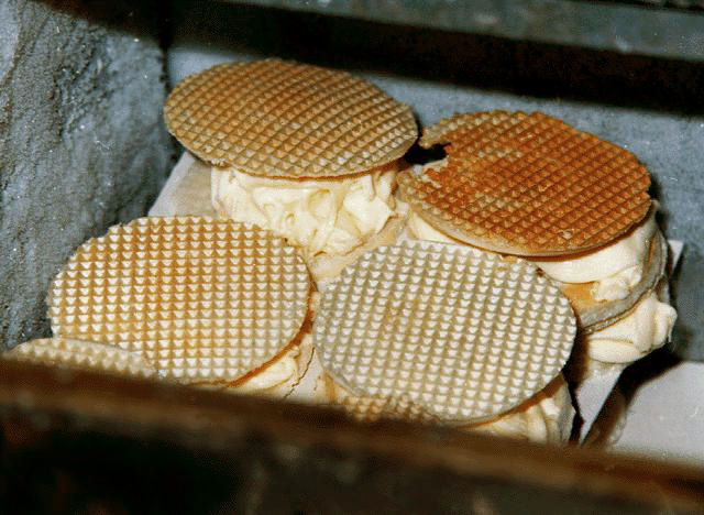 Iranian Traditional Ice-Cream. Akbar Mashti.